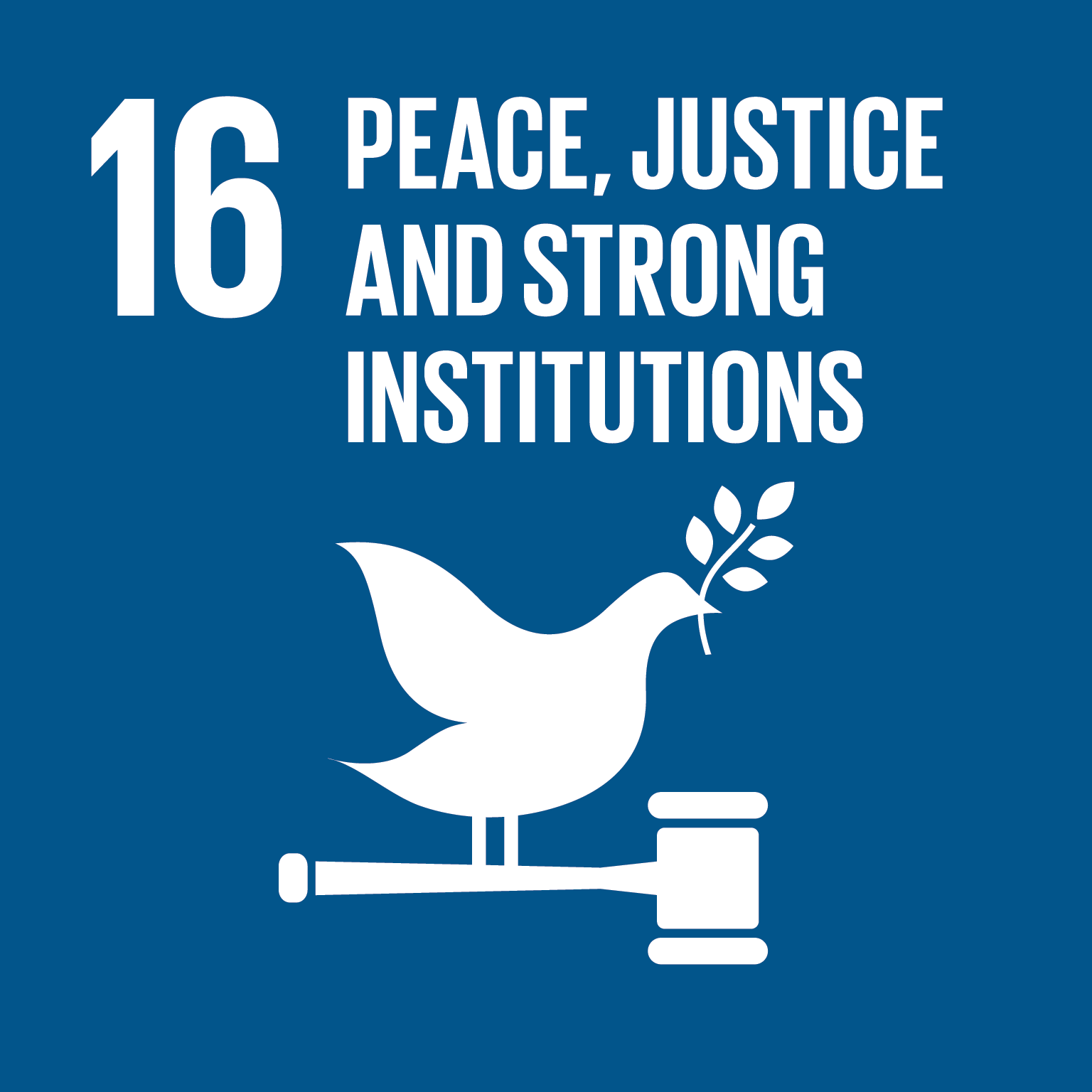 SDG16 Peace, Justice and Strong InstitutionsRomână: Obiectivul de dezvoltare durabilă nr. 16: Pace și justiție (în engleză)